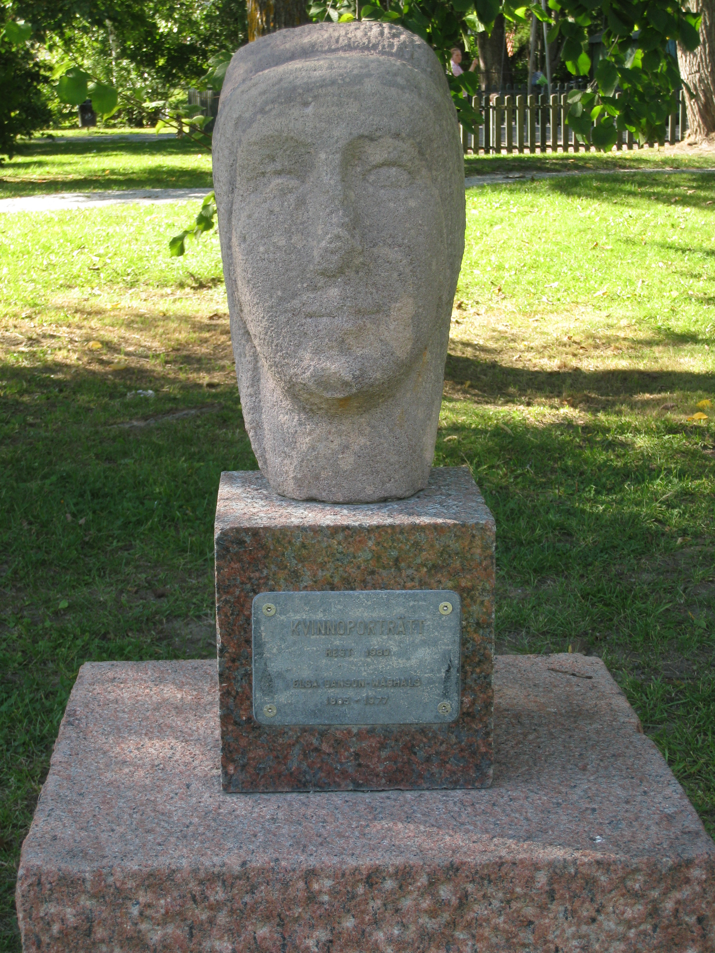 Elsa Danson Wåghals (1885-1877), Swedish sculptor, "Women's portrait" in granite, residing at Olovslundsdammen in Olovslund, Bromma, established in 1980.